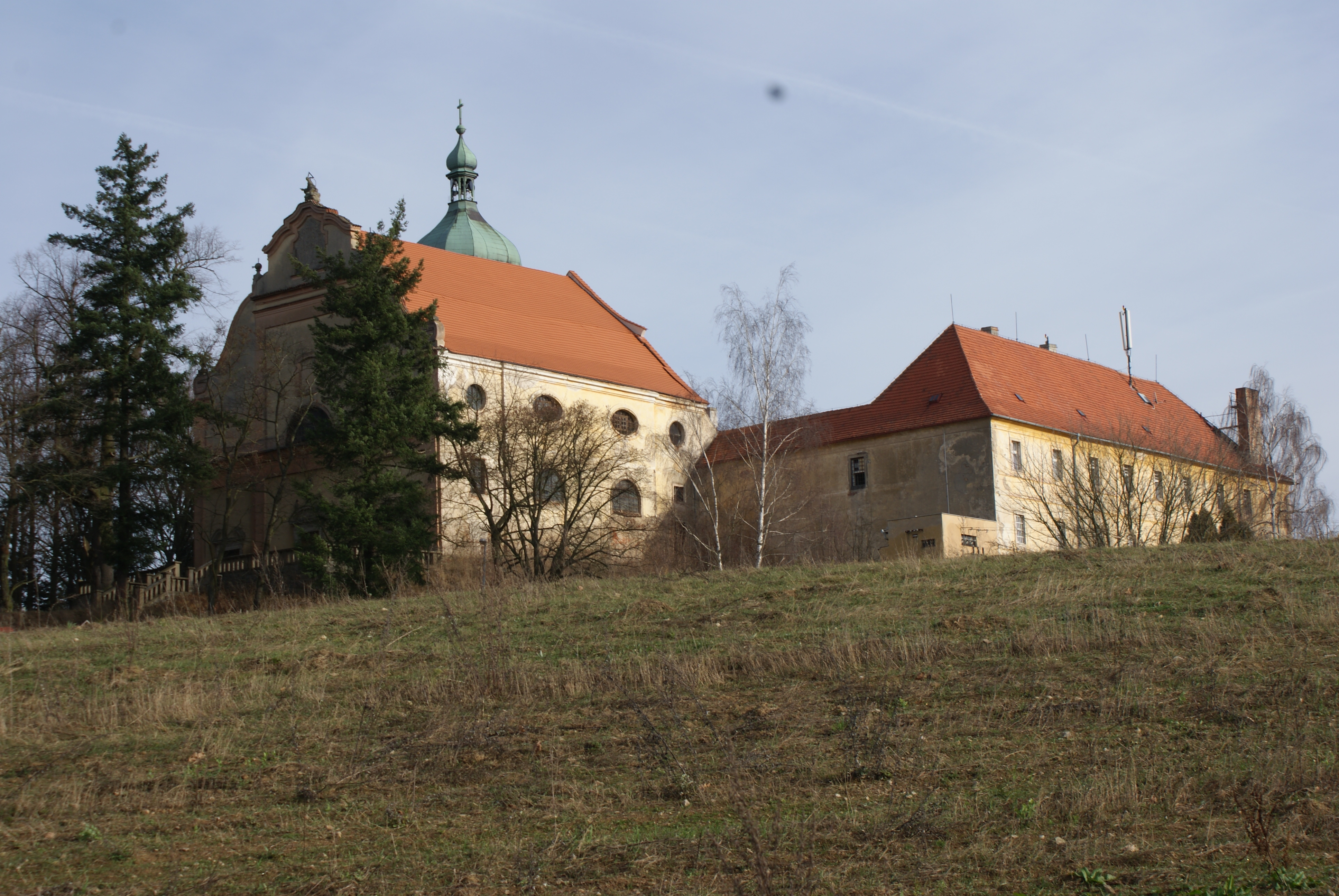 The Augustinian monastery in Lnáře seen from the south.